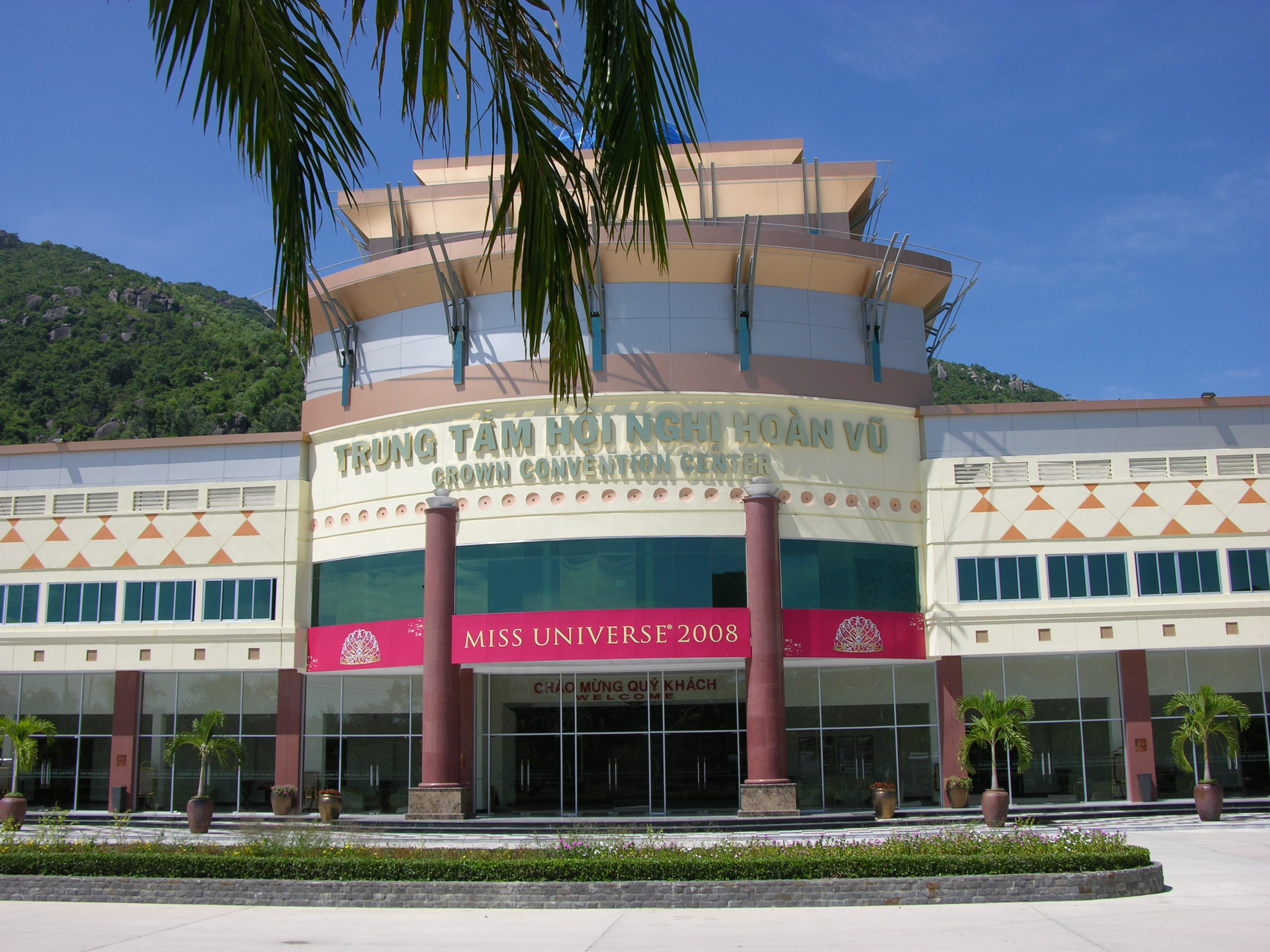 Crown Convention Center in Nha Trang, Viet Nam, where organize Miss Universe 2008